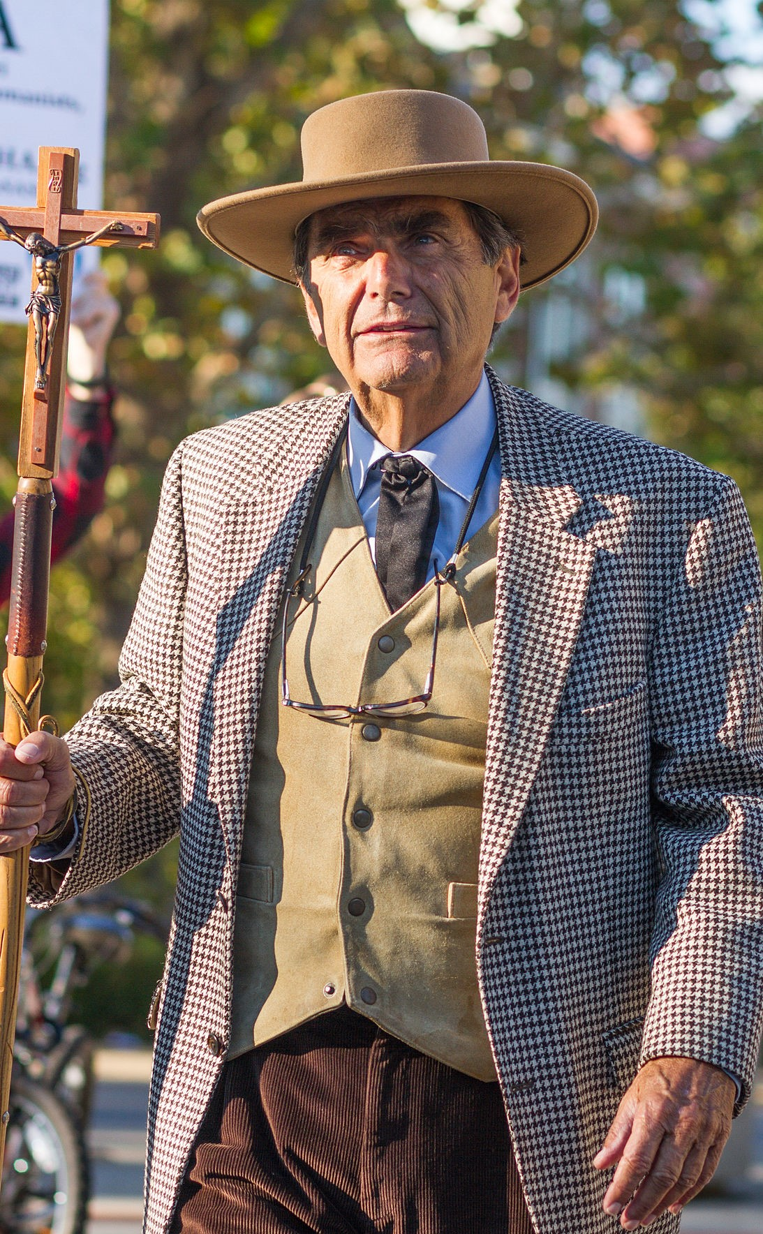 Brother Jed's first day back in Columbia.